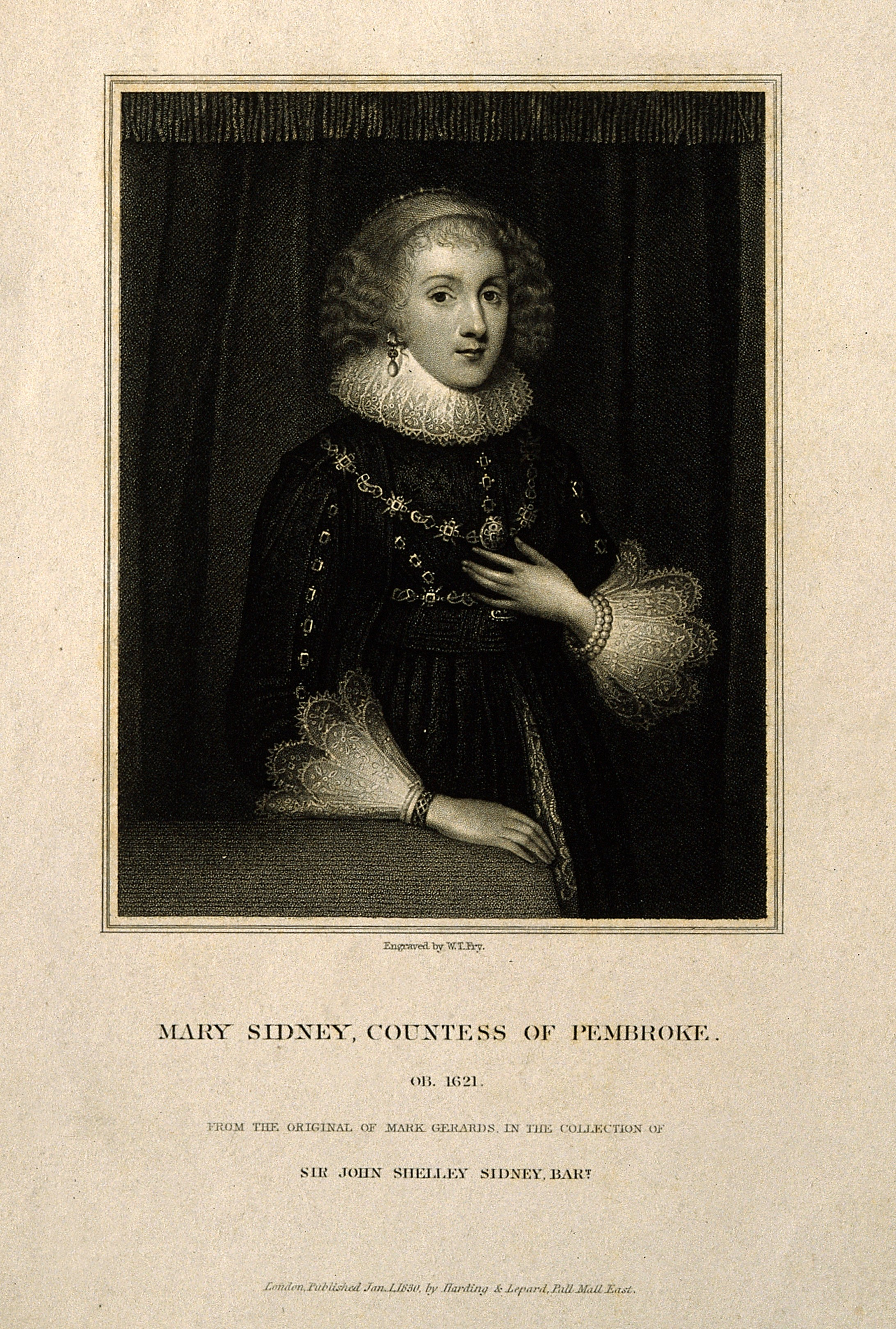 Mary Sidney Herbert, Countess of Pembroke. Stipple engraving by W. T. Fry, 1835, after M. Gerards. Iconographic Collections Keywords: portrait prints; Mary Sidney Herbert Pembroke; stipple prints